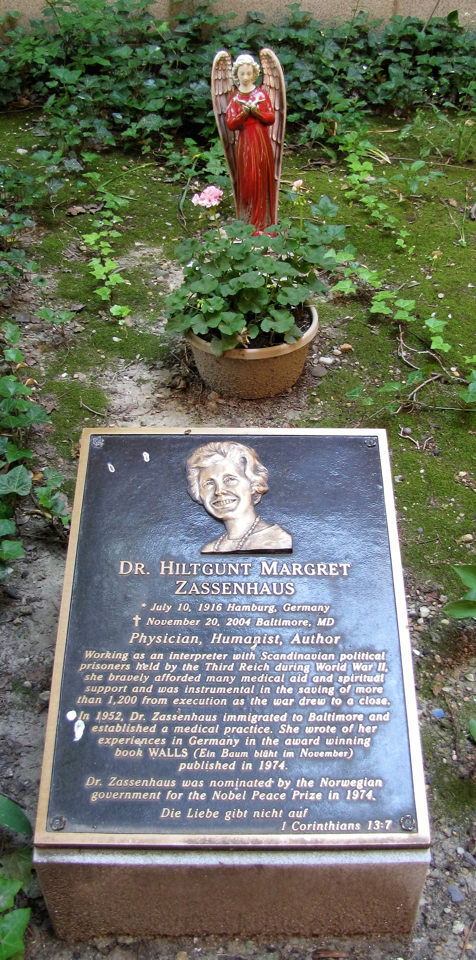 Grave of Hiltgunt Margret (Margret H.) Zassenhaus, Memorial Garden @ Zion Church of the City of Baltimore (2009)